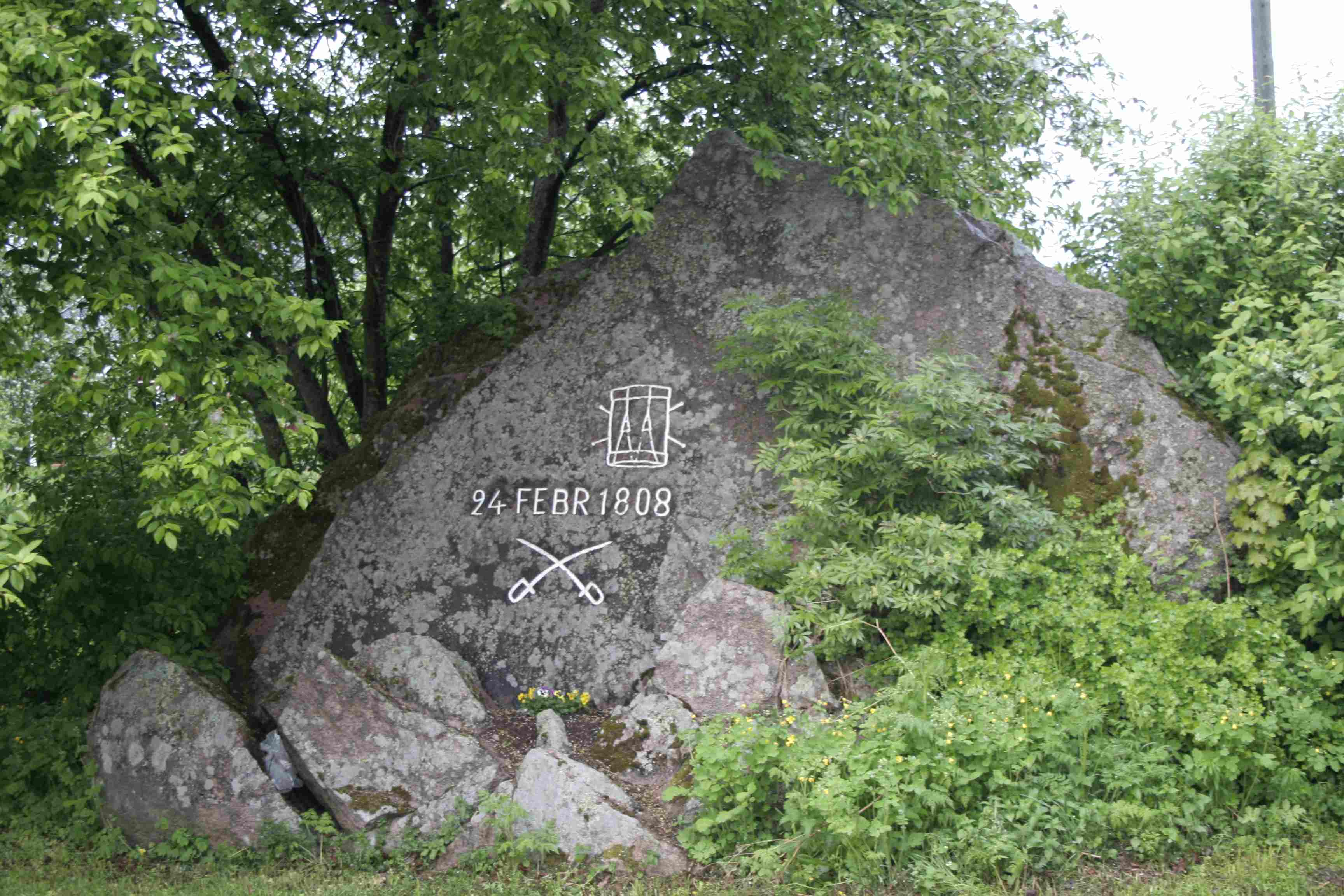 The memorial stone of the battle of Liljendal, Lapinjarvi and Myrskyla in Finnish war (Russo-Swedish war 1808–1809) / The Guild of Uusimaa Brigade, 4th September, 1965 Geographical position: L/A (later available) Photograph: Canon EOS 350D, Canon Zoom Lens EF-S 18-55 mm 1:3.5-5.6 II Olli-Jukka Paloneva, 3rd June, 2005, References: L/A